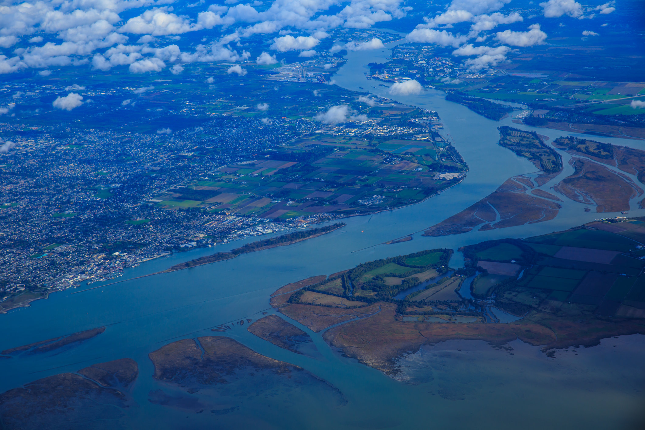 Flight from YVR to Las Vegas...Fraser River delta in Richmond